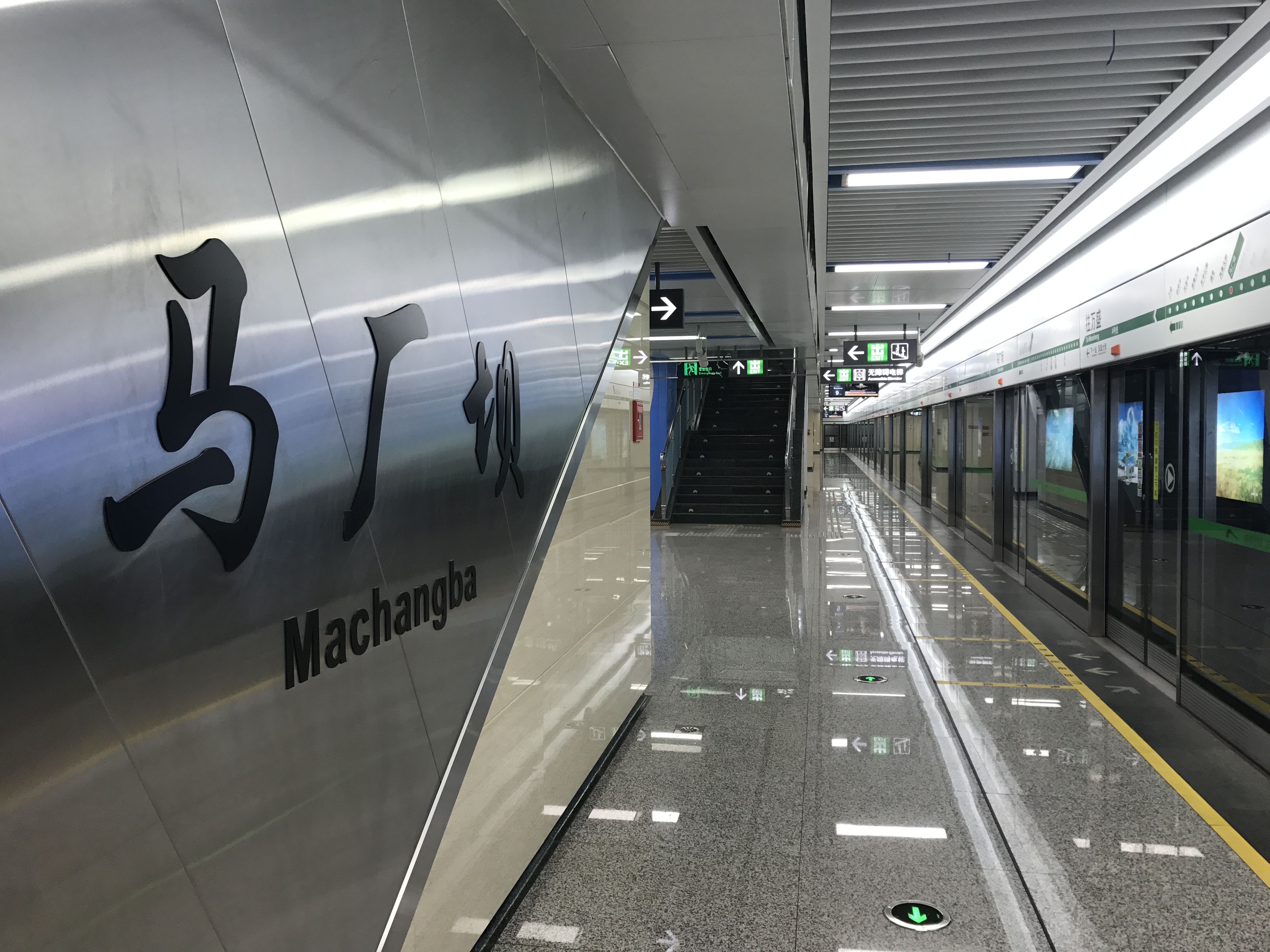 Platform of Machangba Station, Chengdu Metro